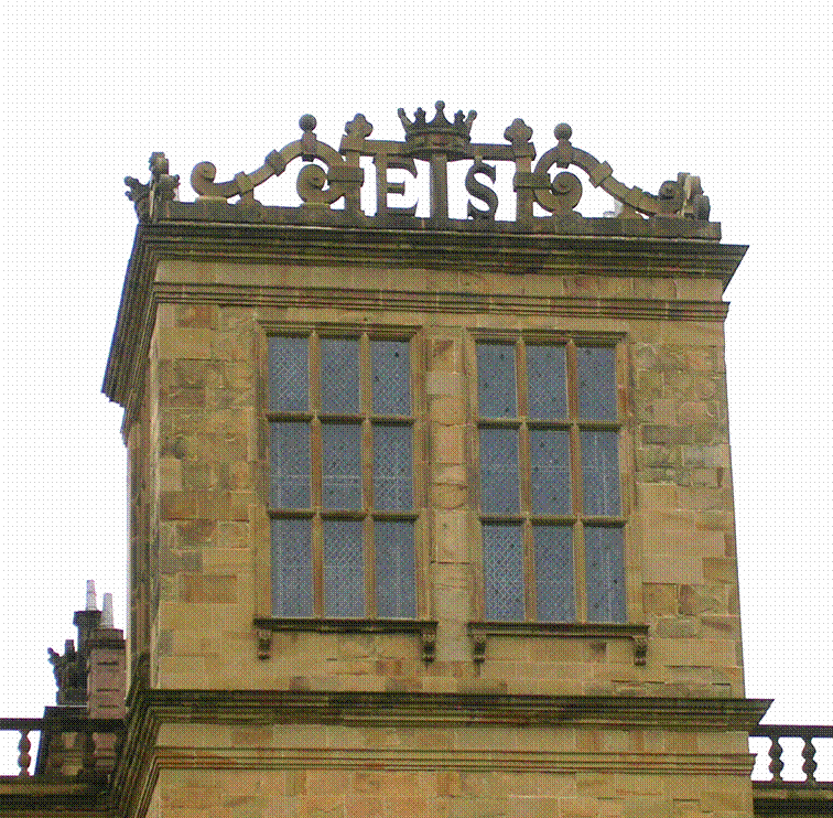 The top storey of a pavilion at Hardwick Hall is surmounted by the letters "E" and "S", referring to Elizabeth, Countess of Shrewsbury, the original owner.